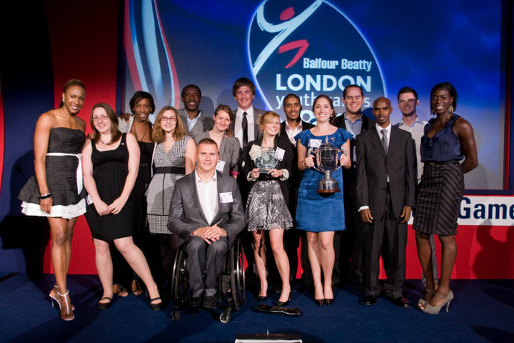 2010 LYG Hall of Fame